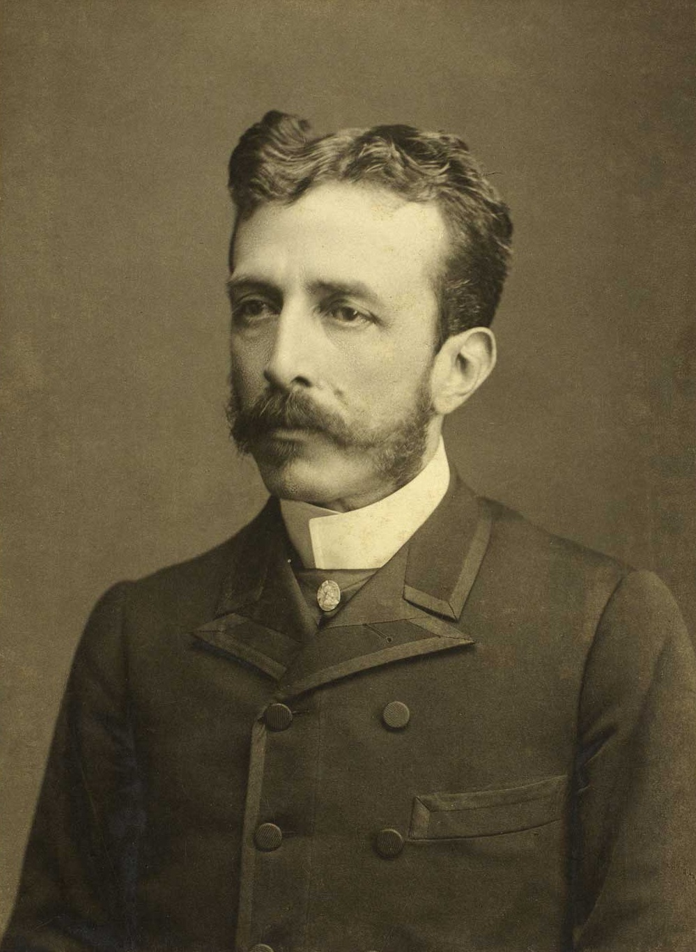 Silva, Rodrigo Augusto da, 1833-1889. Cabinet officers - Brazil.